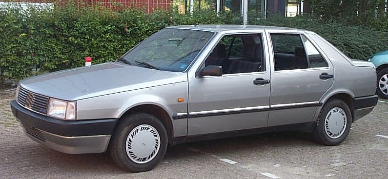 Fiat Croma 1989